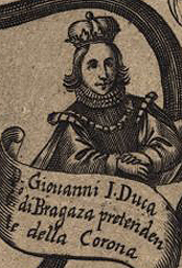 John I, Duke of Braganza